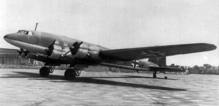 A German Focke-Wulf Fw 200A Condor. This aircraft was the third production Fw 200 (Wk.Nr. 2895), which served with the Deutsche Lufthansa as D-AMHC "Nordmark". It was pressed into military service in 1940 ("GF+GF") and was lost in the Soviet Union in 1943.